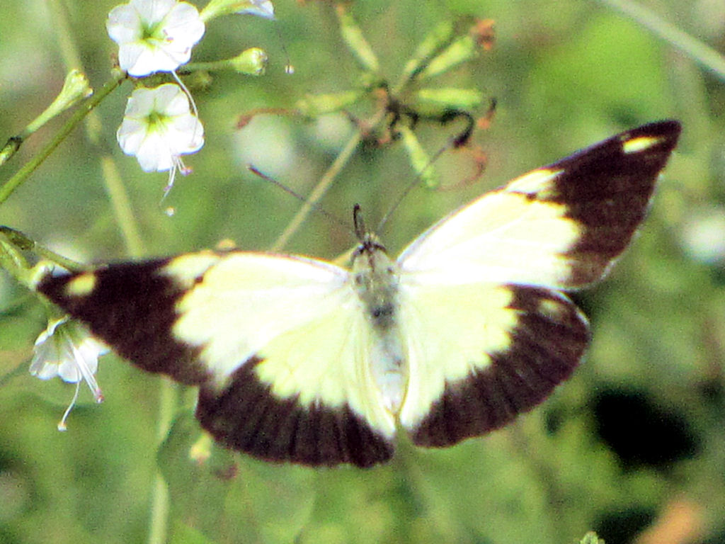 Vine-leaf Vagrant (Eronia cleodora), Lake Manyara Park, Tanzania